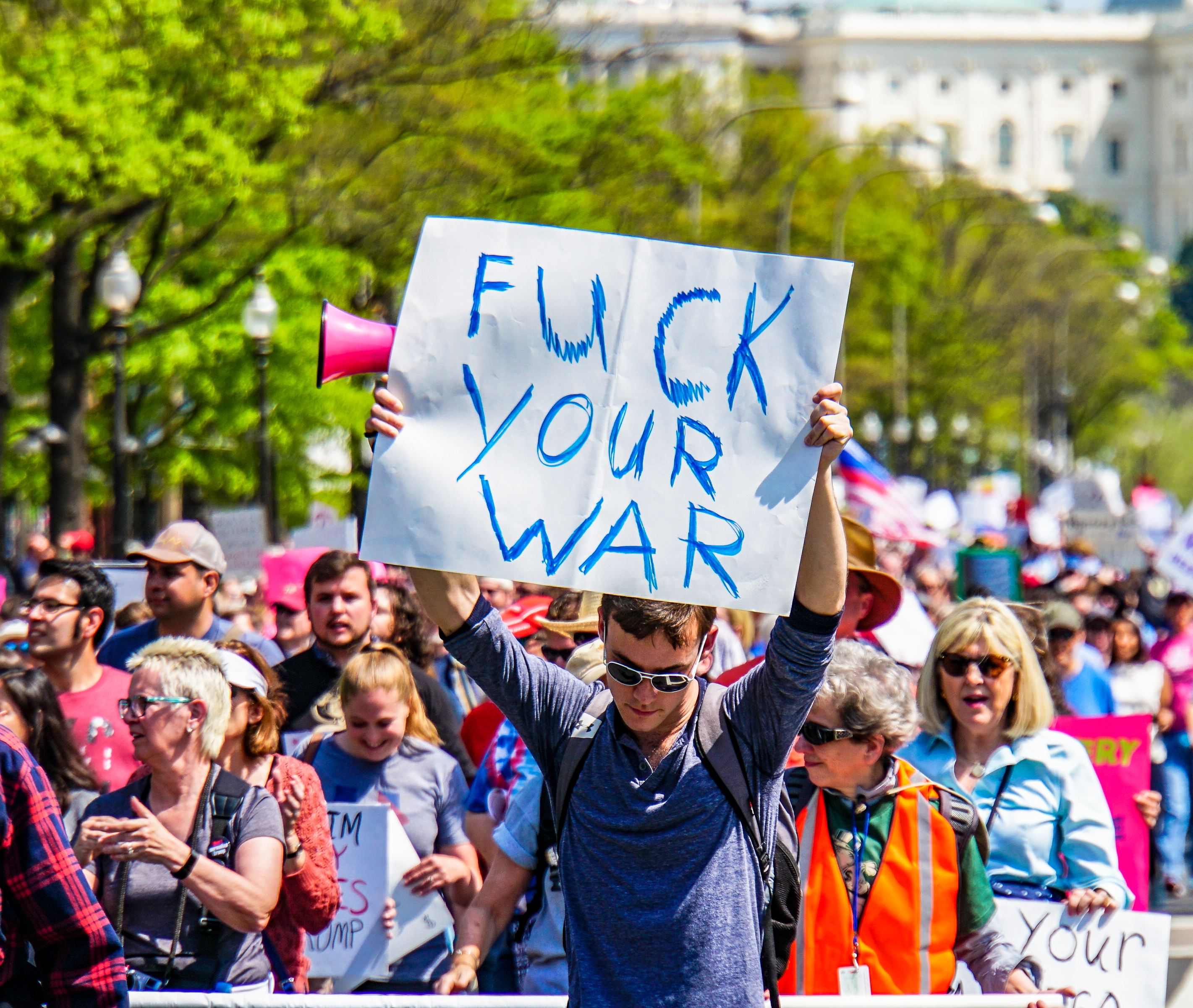 "F-ck Your War"